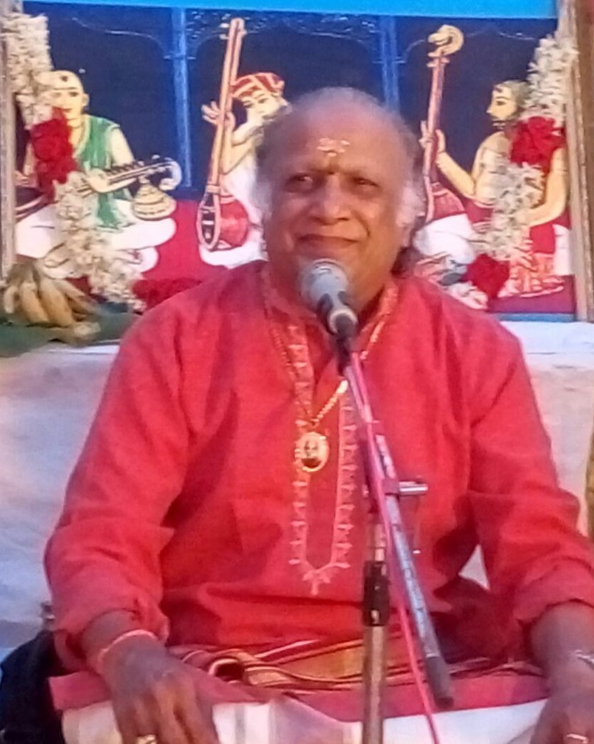 Carnatic musician Padmabooshan Thrissur V Ramachandran